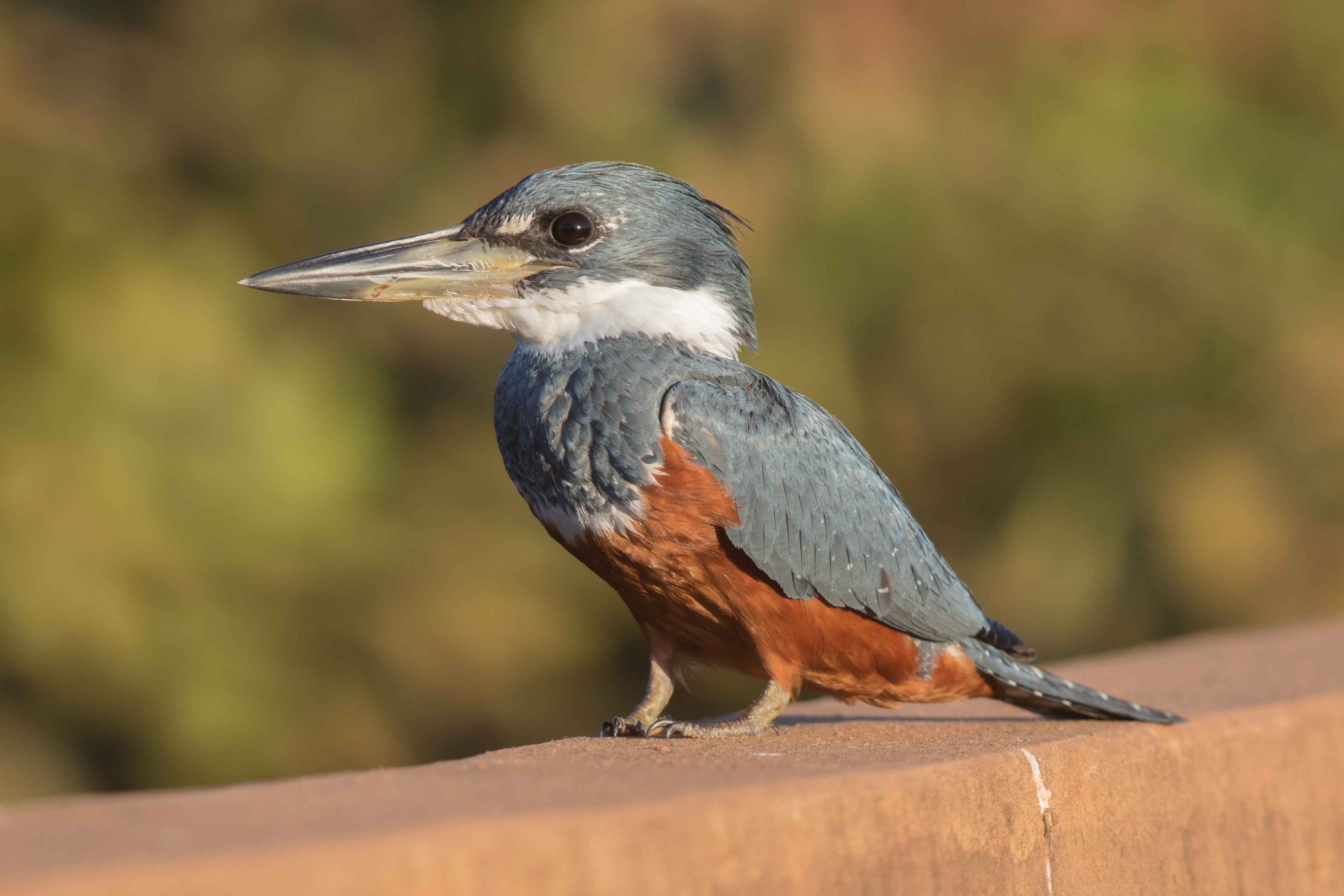 Female Ringed Kingfisher Megaceryle torquata, Rio Sararé, Mato Grosso, Brazil